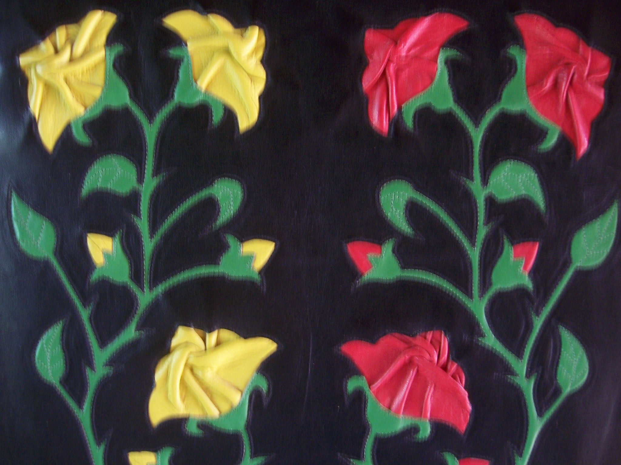 two colors of rose design on leather cowboy boot